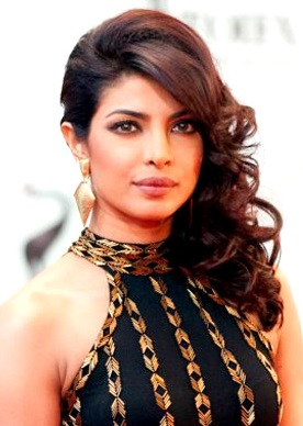 Priyanka Chopra at TOIFA 2013